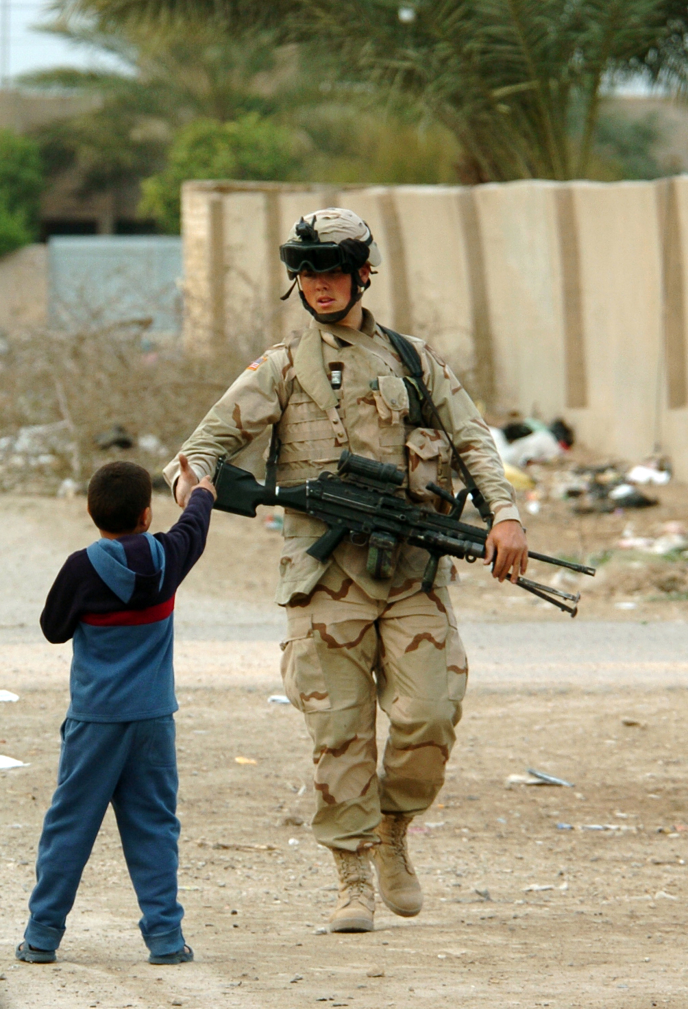 Iskandriyah, Iraq (Mar. 8, 2005) - A U.S. Army Soldier assigned to 155BCT, Charlie Company, National Guard Unit from Tupelo, Miss., shakes the hand of a local Iraqi child as he conducts a presence patrol through the neighborhoods of Iskandriyah, Iraq. These patrols are to maintain community relations and to show a presence of security. U.S. Navy photo by Photographer's Mate 1st Class Brien Aho (RELEASED)